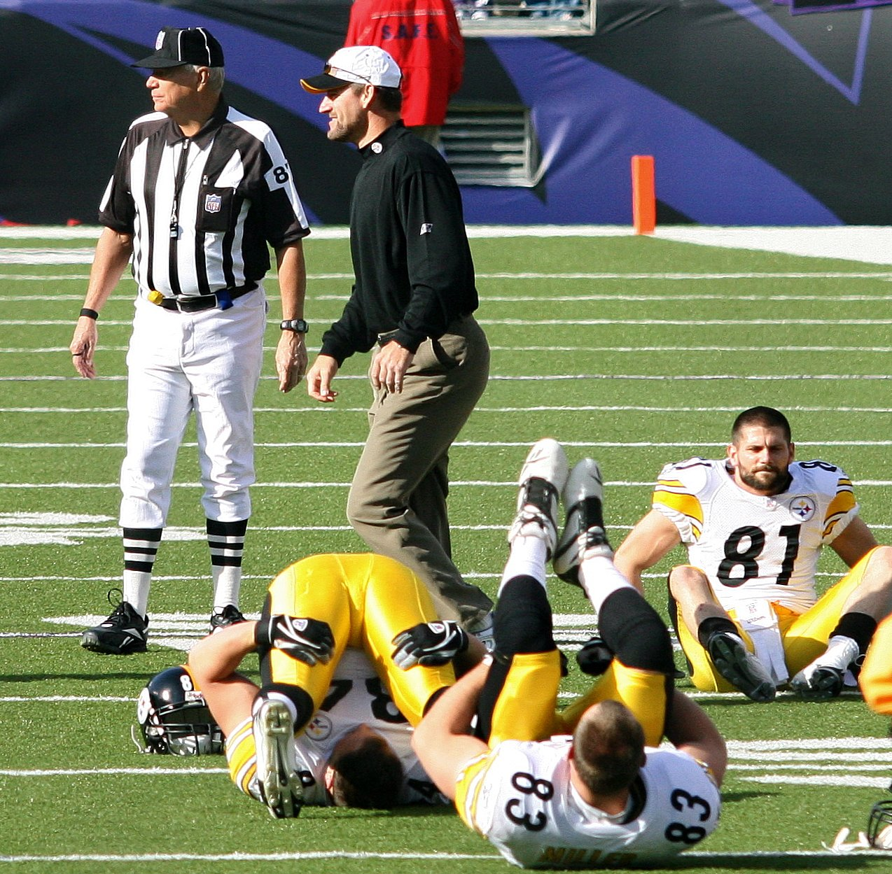 NFL referee Paul Weidner and Pittsburgh Steelers coach Bill Cowher standing on the M&T Bank Stadium field while Steelers player Sean Morey (#81) and others warm up